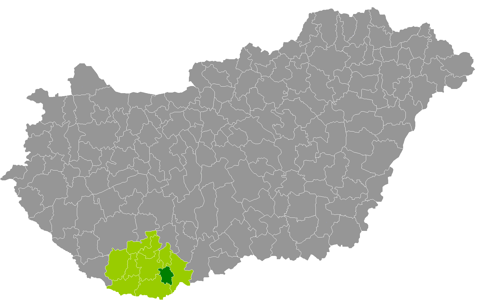 Location of Bóly District, Baranya, Hungary